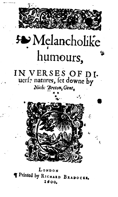 Nicholas Breton "Melancholike Humours..."